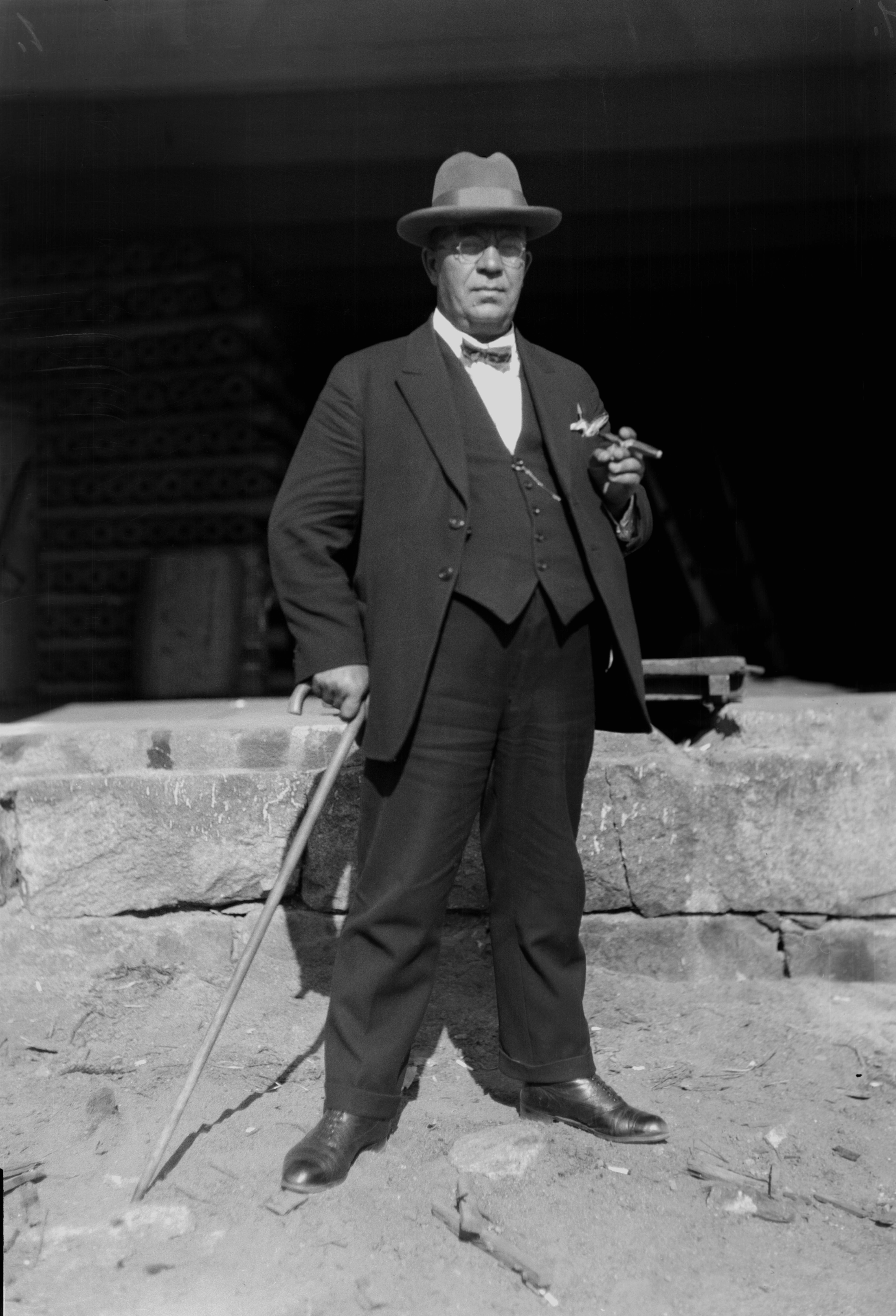 Photograph of the Finnish poet Jussi Raitio (1882–1954).